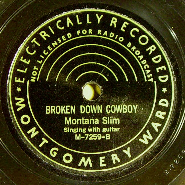 Broken Down Cowboy by Montana Slim, Montgomery Ward ca. 1937.